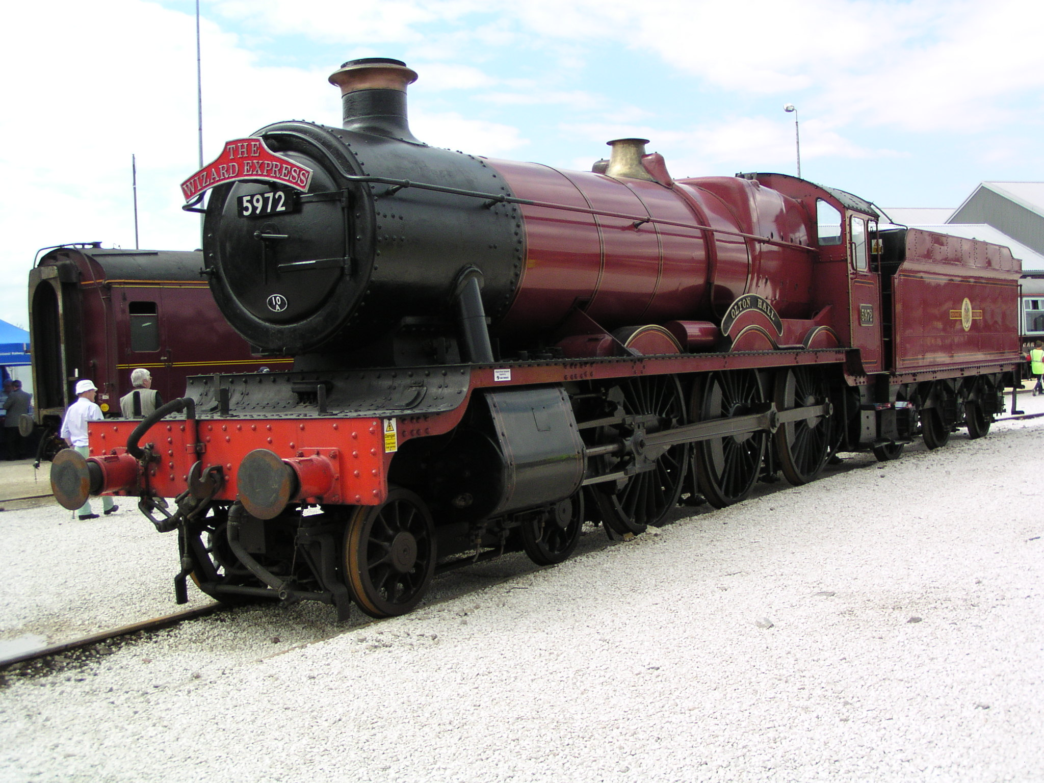 Great Western Railway Hall Class, no. 5972 "Olton Hall" on display at Doncaster Works open day on 27 July 2003. This locomotive is used to haul the Hogwarts Express in the Harry Potter films.